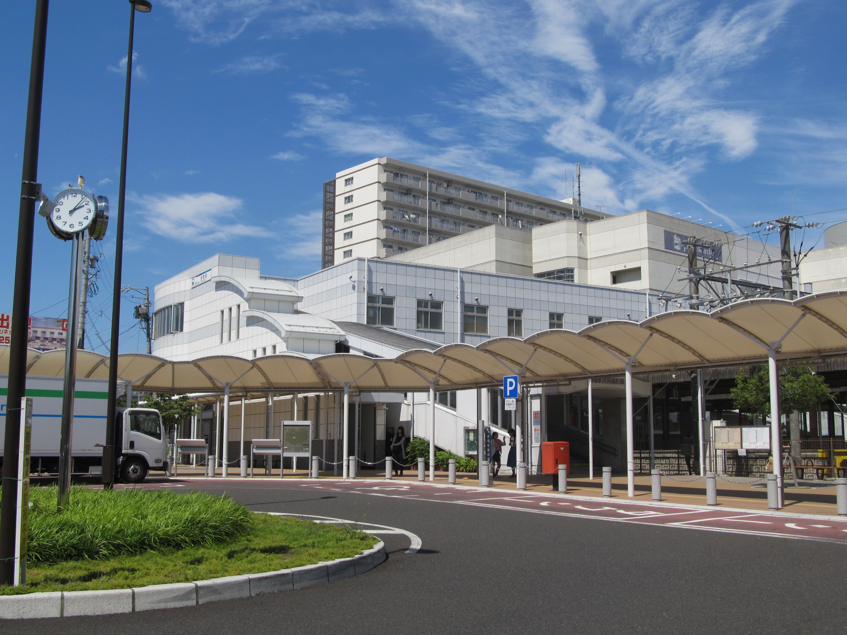 Nagoya Railroad Inuyama Line Nishiharu Station West Gate